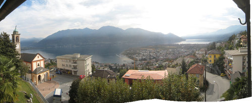 Panorma di Orselina, vista dal Via Squadra di Sopra